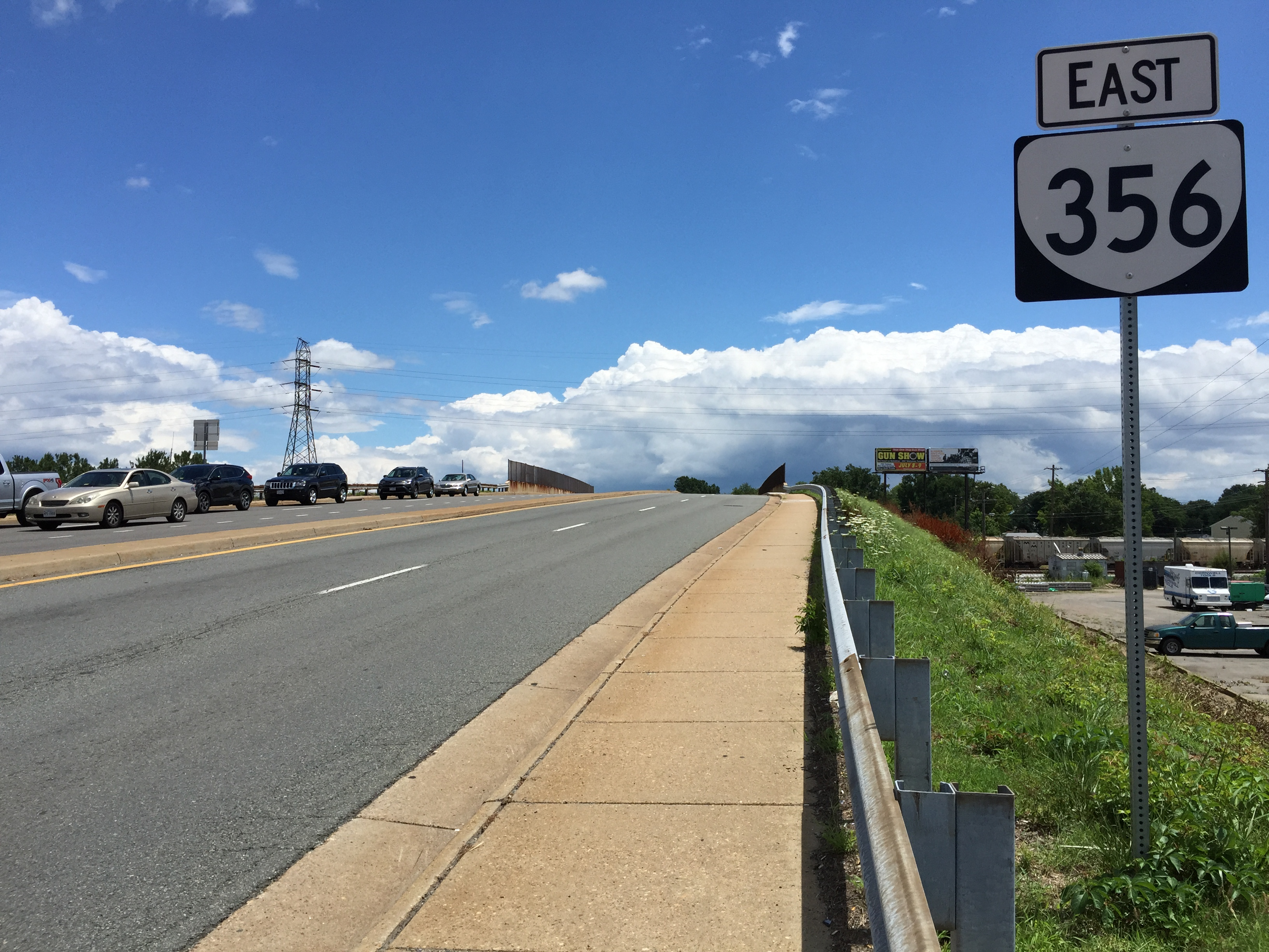 View east along Virginia State Route 356 (Hillard Road) at U.S. Route 33 (Staples Mill Road) in Lakeside, Henrico County, Virginia